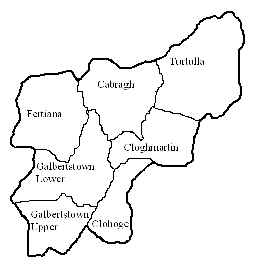 Outline map of townlands in Fertiana civil parish in Tipperary, giving an improved outline for Turtulla townland, avoiding the mistake of including within it the area of a neighbouring townland in Thurles civil parish which is also called Turtulla.